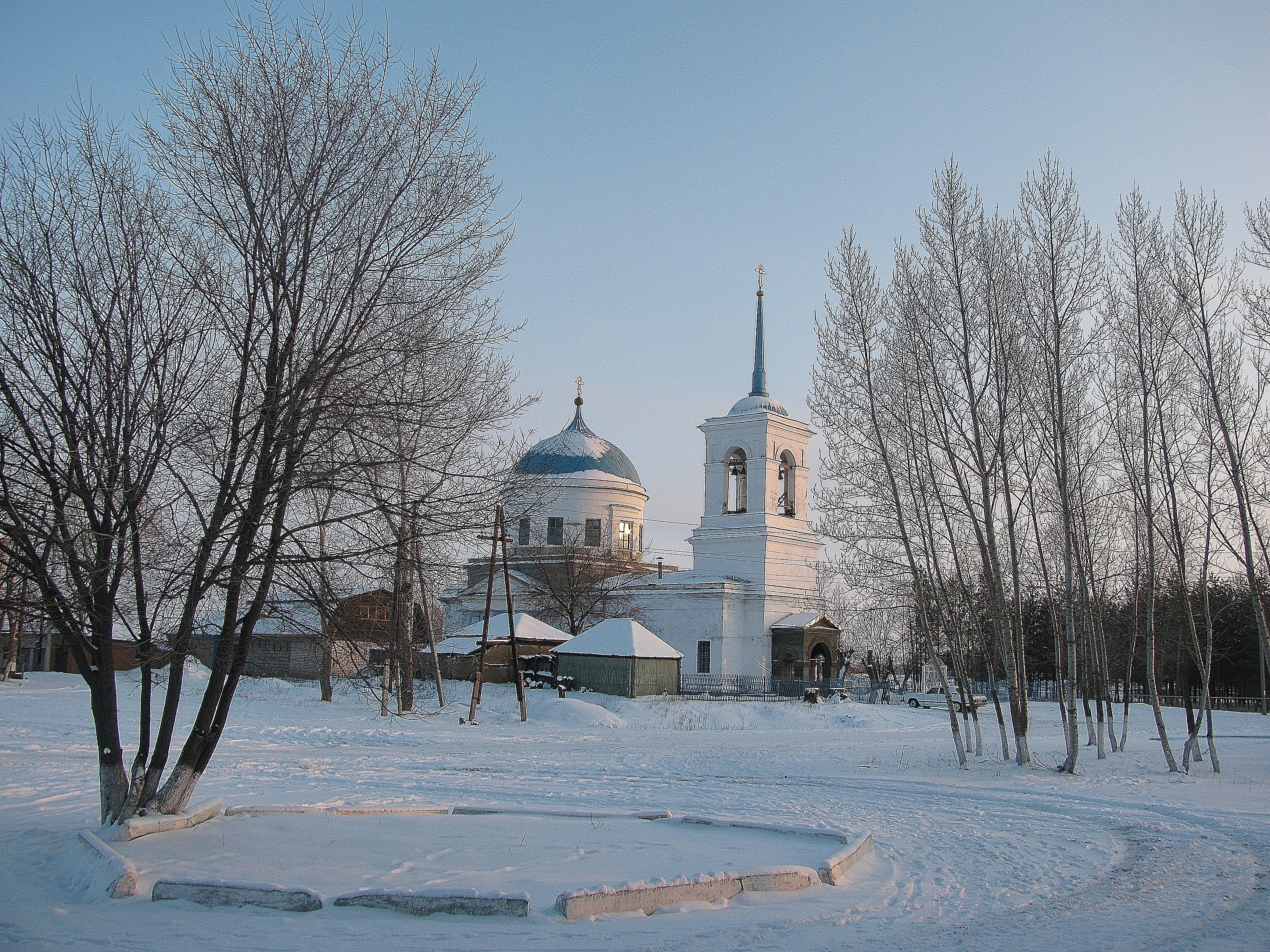 Orthodox church built in 1838-1839 years.